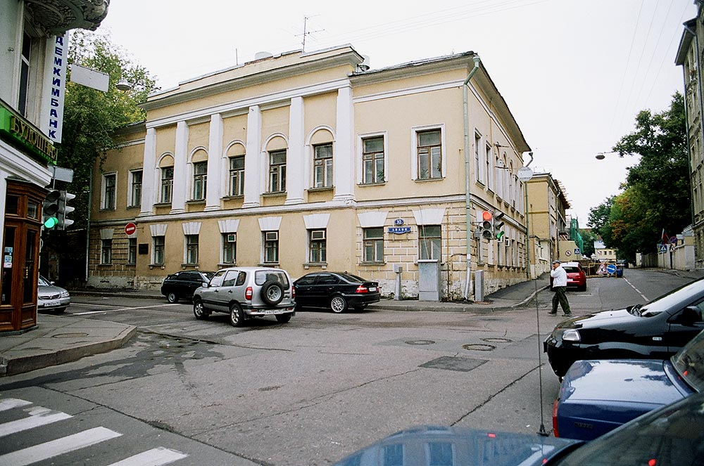 10, Lyalin Lane in Moscow, Russia